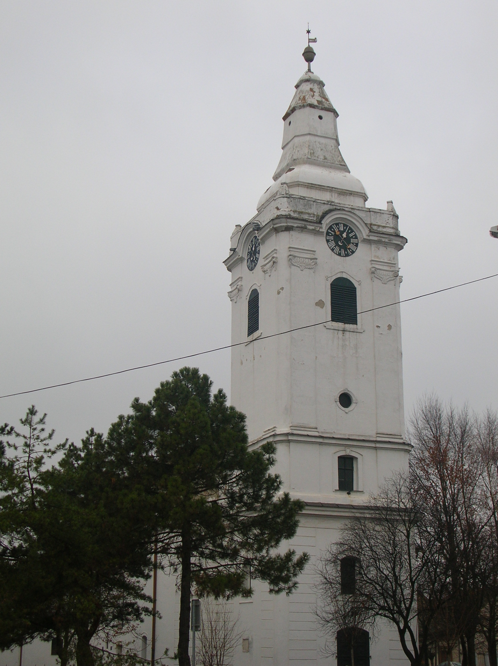 Reformat church in Makó - makói Református Ótemplom